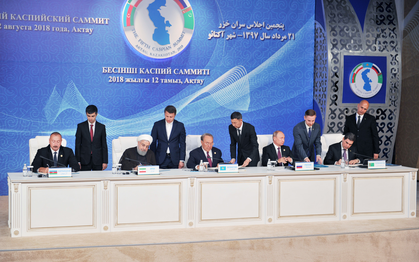 Heads of State of Caspian littoral states signed Convention on legal status of Caspian Sea in Aktau